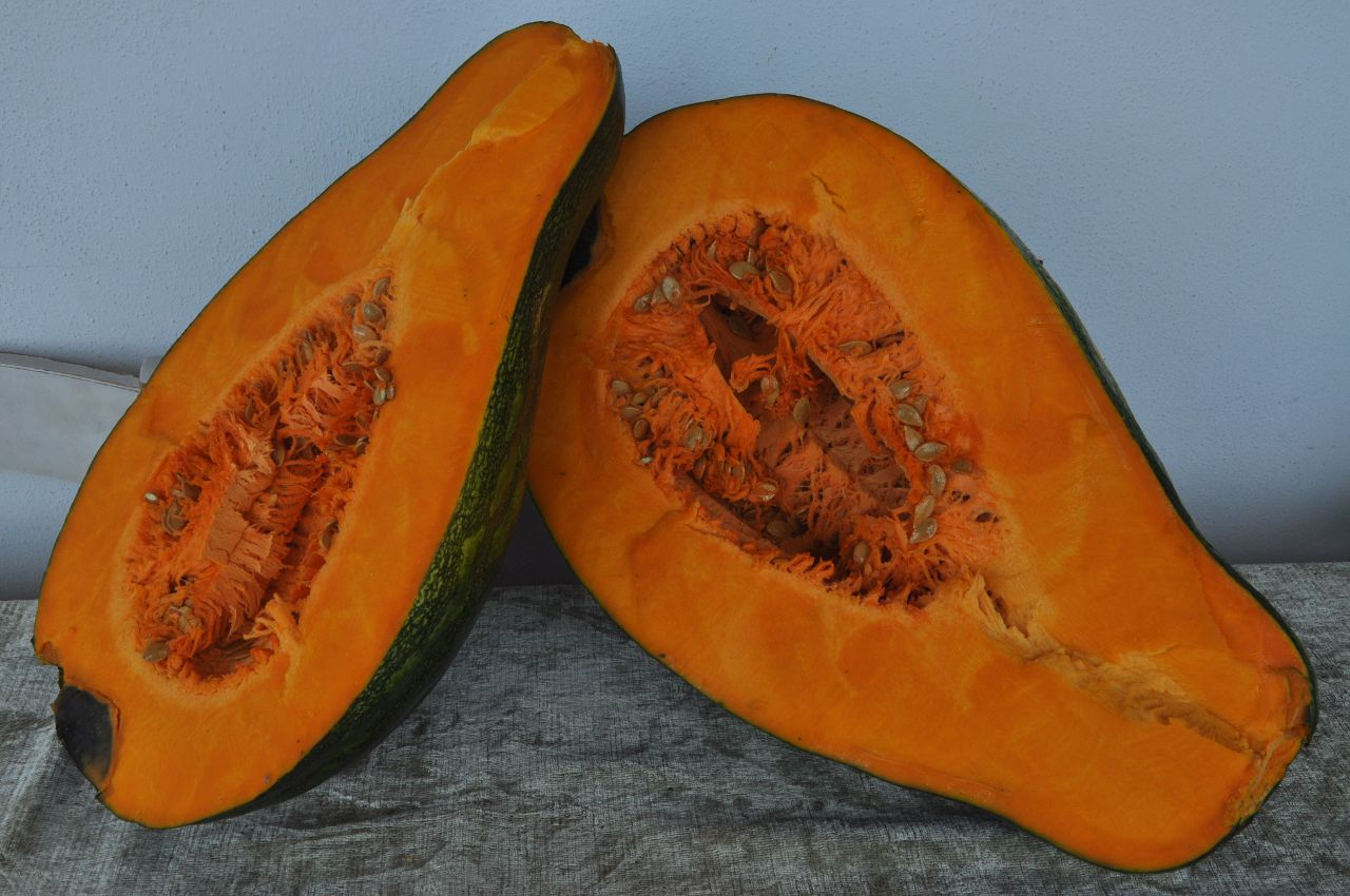 Cucurbitaceae fruit (Cucurbita moschata) — in Guadeloupe.